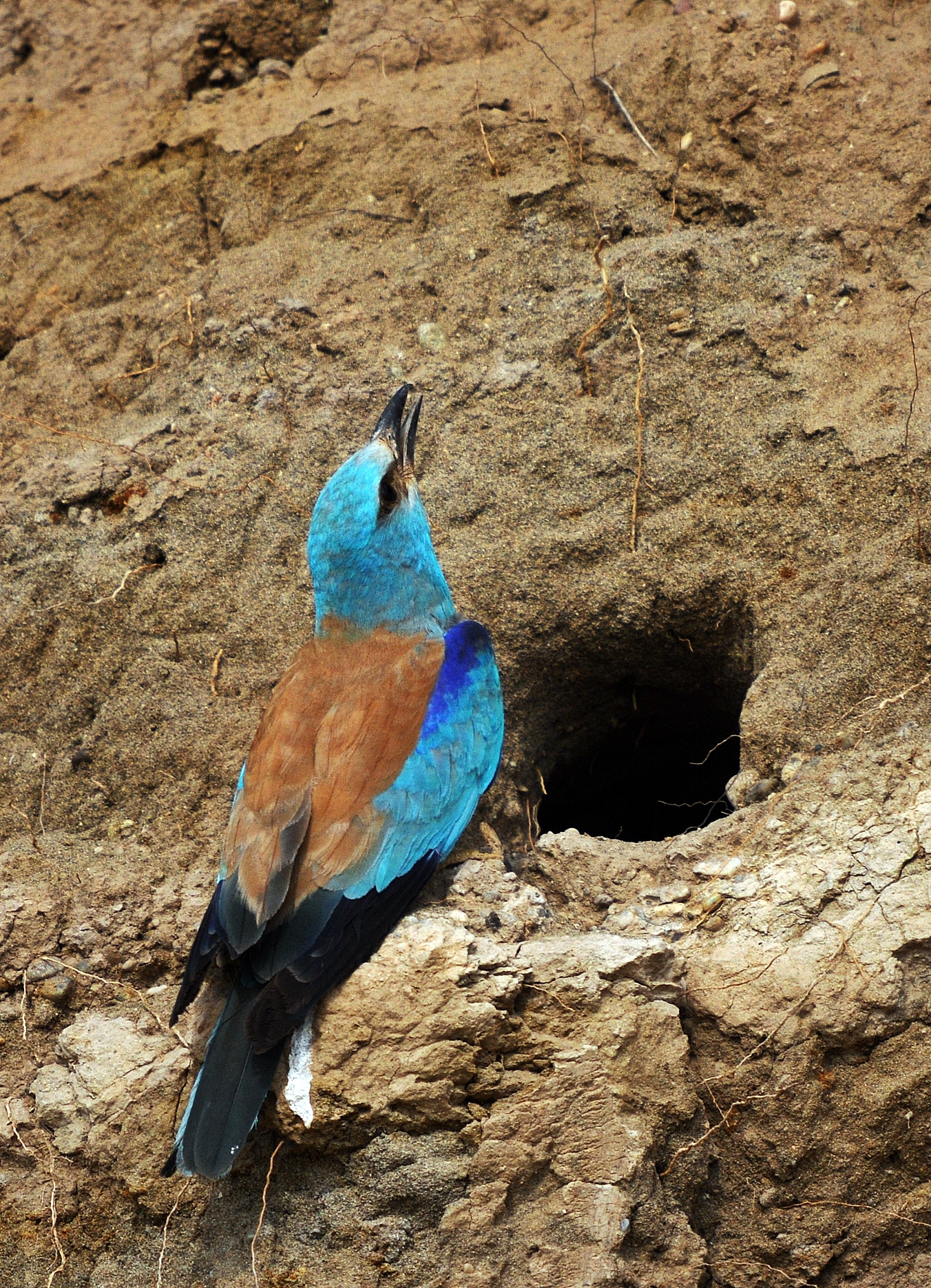 Roller